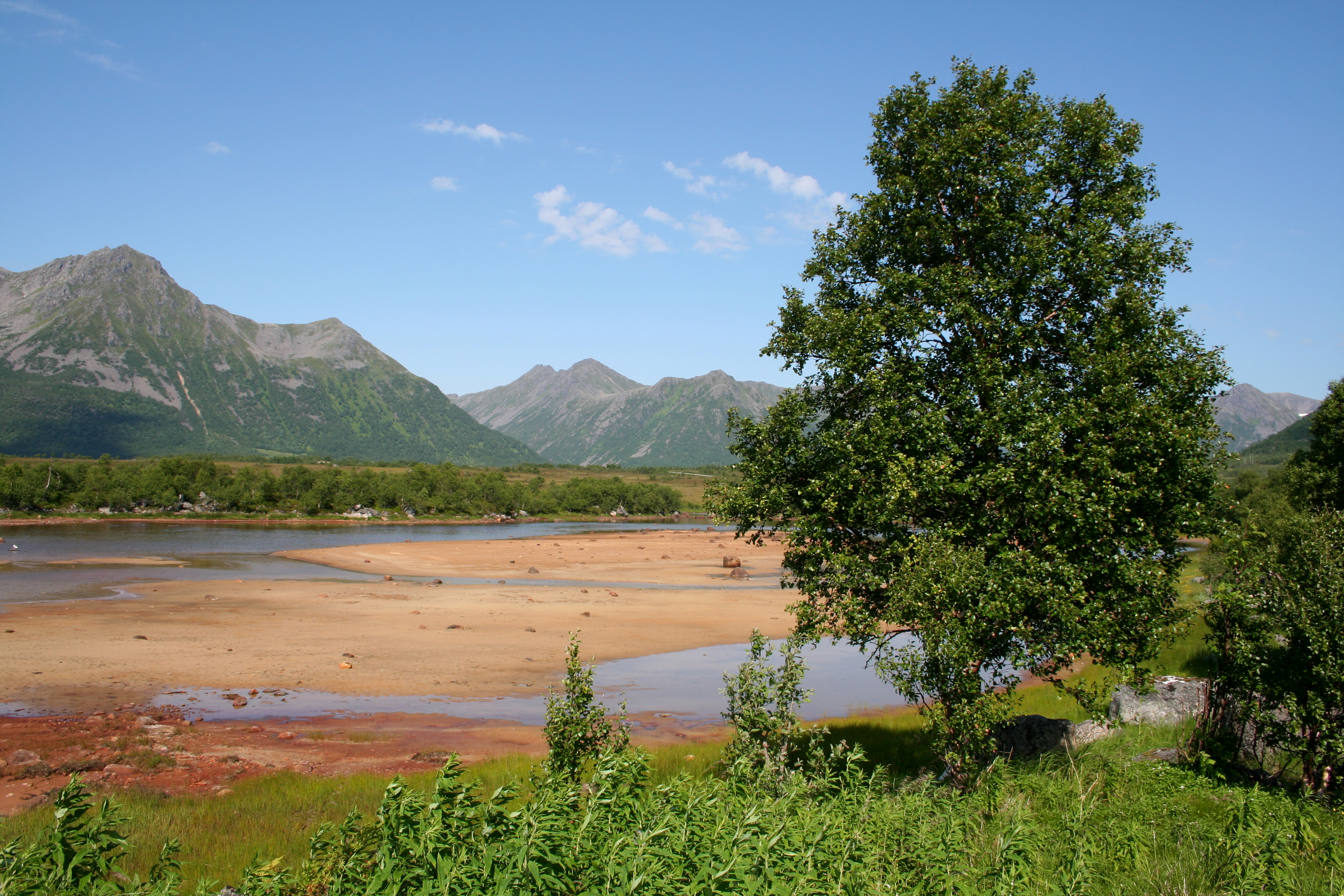 Forfjord in Andøy and Sortland municipalities, Norway